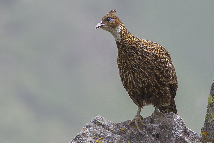 This species Himalayan Monal (an adult female ♀) had been photographed at Tungnath, Rudraprayag, Uttarakhand, India on 14th June 2013.